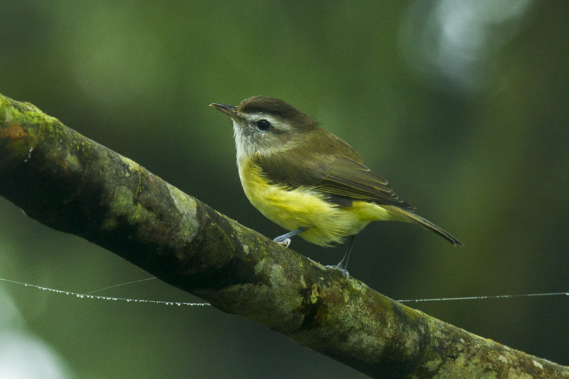 Brown-capped Vireo - South Ecuador_S4E8717